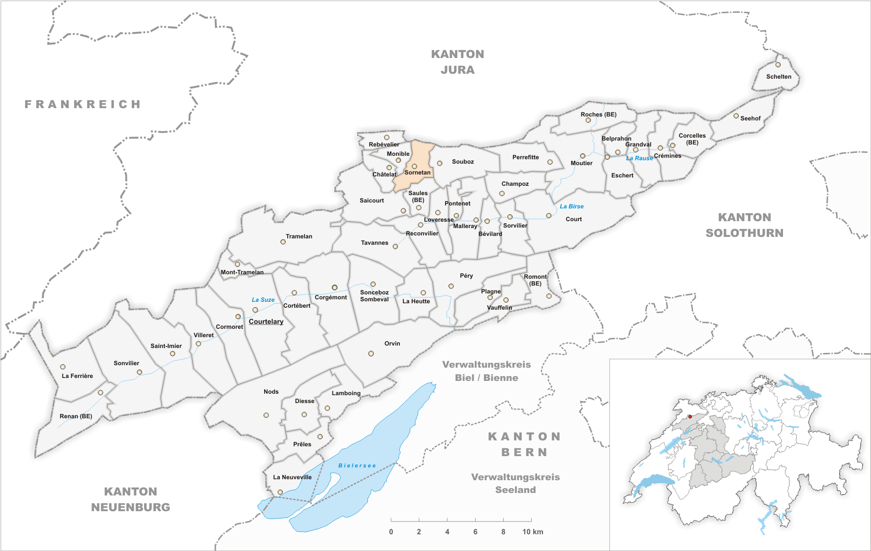 Municipality Sornetan